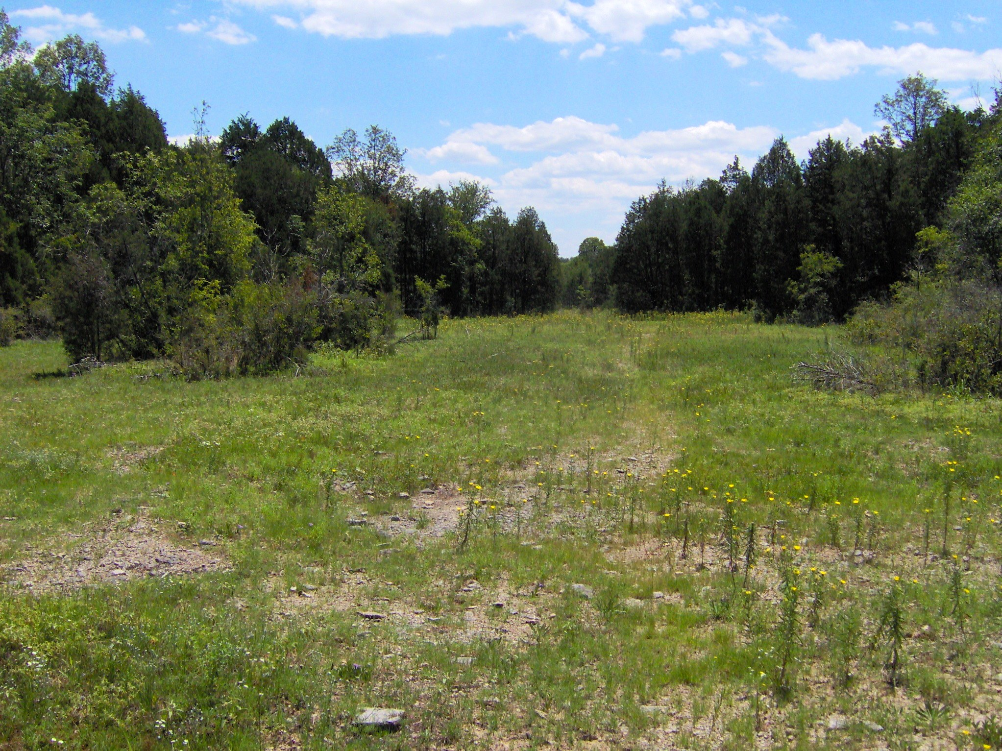 Cedar glade at Cedars of Lebanon State Park in Wilson County, Tennessee, in the southeastern United States. This large glade is located along the Hidden Springs Trail.